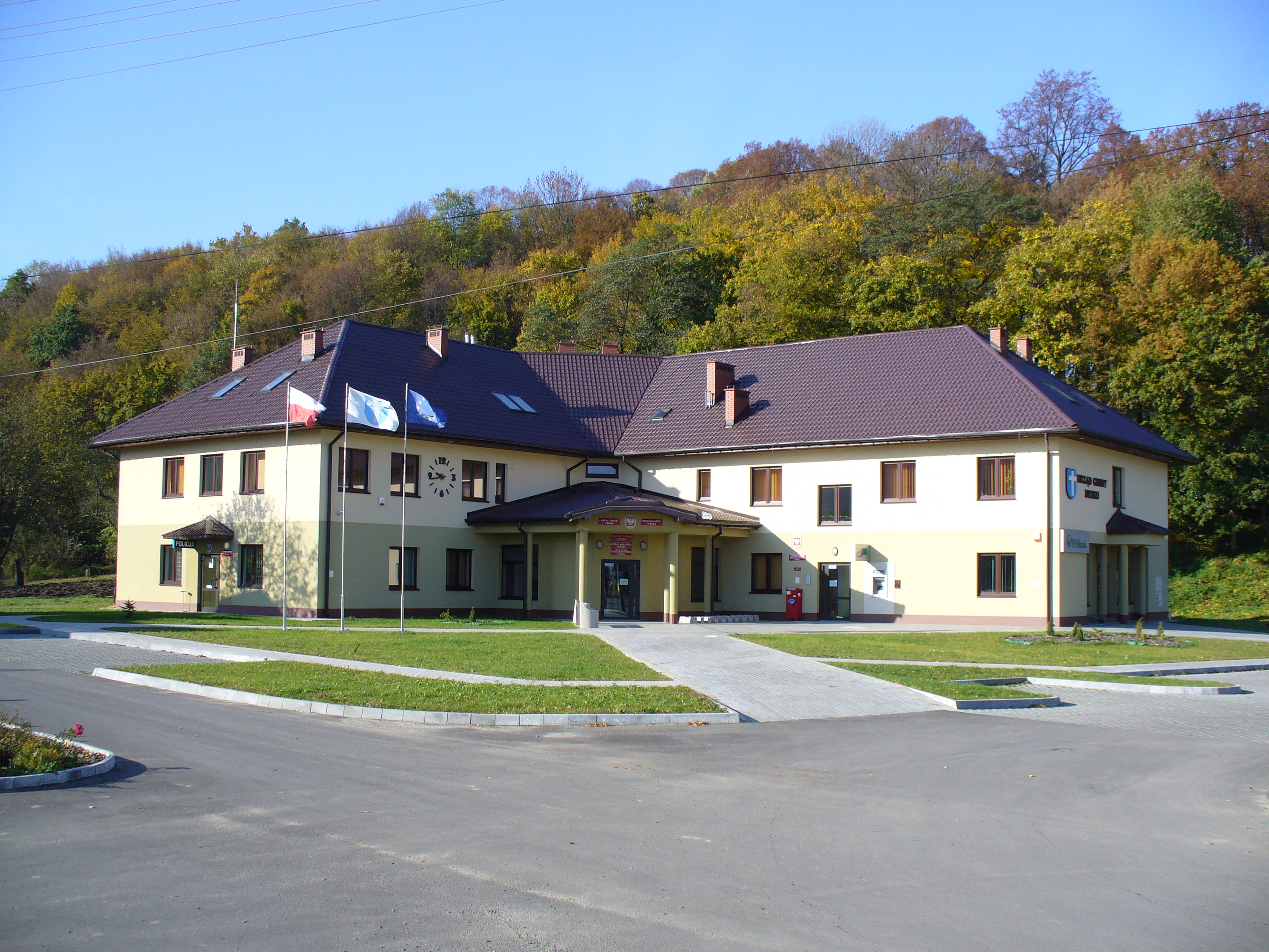 Besko